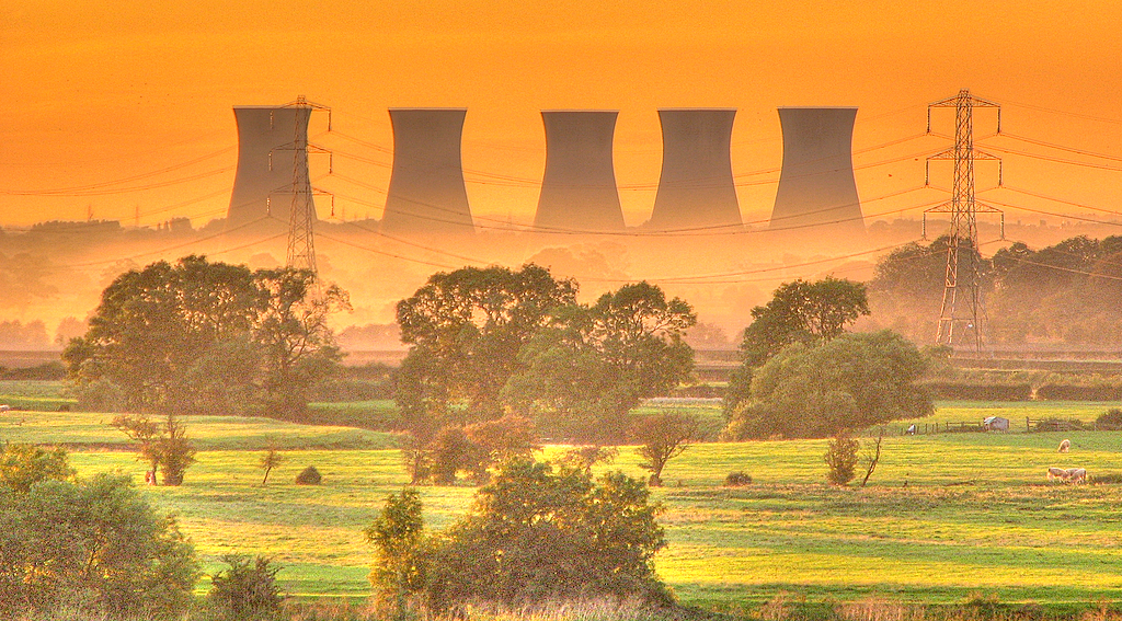 Trent Valley from Stanton by Bridge. View large.